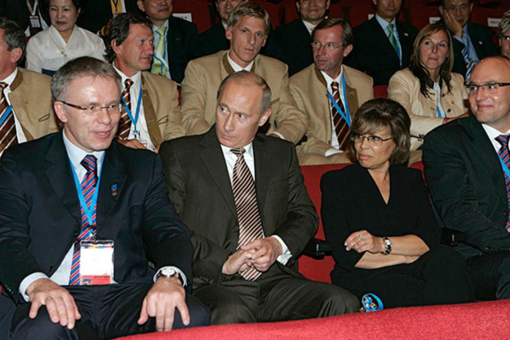 GUATEMALA. At the opening ceremony of the 119th session of the International Olympic Committee.